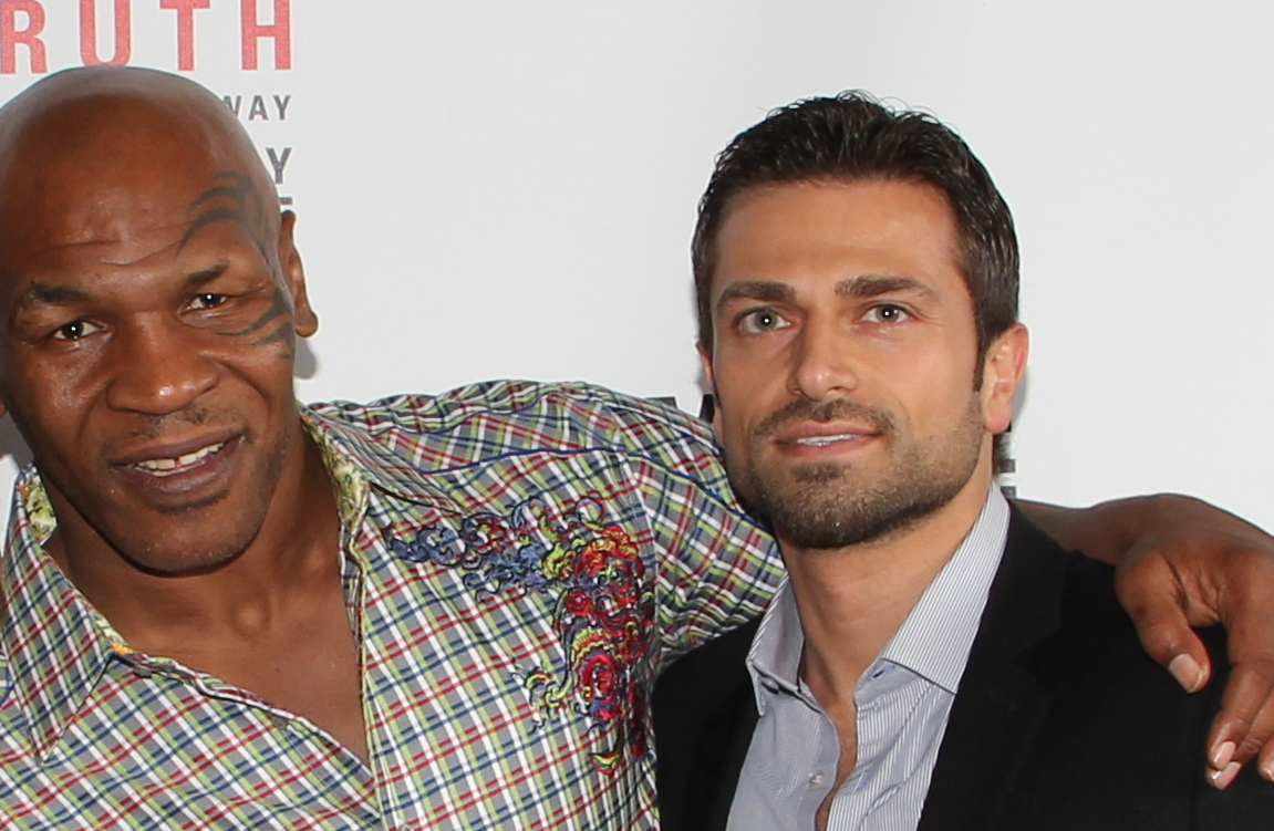 New York